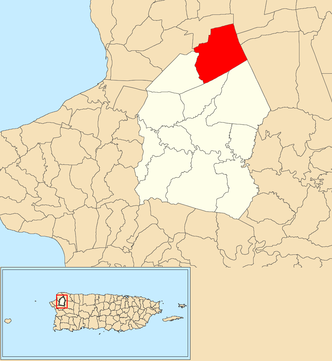 Aceitunas, Moca, Puerto Rico locator map